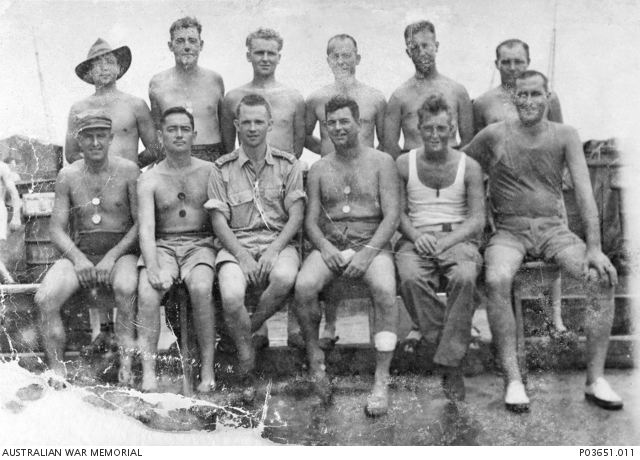 Informal group portrait of Australian survivors (all but one) from the Sakata prisoner of war camp in Japan (north-west Honshu). All survived the sinking of the Japanese troop transport Rakuyo Maru and were subsequently rescued by other Japanese ships to continue their journey from Singapore to Japan. Here they are onboard the aircraft carrier HMS Formidable on their repatriation to Australia in October 1945. From left to right; back row: VX61564 Craftsman Stanley J Manning, 2/10 Field Workshop; VX12548 Geoffrey MacAulay, 1 Australian Corps Petrol Park; said to be W R Smith; NX32933 Ernest J Wade, 2/15 Field Regiment; NX26519 John Wade, 2/15 Field Regiment; QX13145 Sergeant Arthur W Hall, 2/10 Field Regiment. Front row: SX13426 Private Alick A Robinson, 2/10 Ordnance Workshops; VX17827 Private Harold G Ramsey, 2/2 Australian Pioneer Battalion (with the Kawasaki group); NX70273 Captain Charles Rowland (Rowley) B Richards, medical officer, 2/15 Field Regiment; NX68567 Warrant Officer Class II Keith H H Martin, 2/3 Motor Ambulance Convoy; VX32162 Driver Francis A 'Titch' Lemin, 2/2 Motor Ambulance Convoy and QX10108 Gunner Kitchener 'Kitch" M Loughnan, 2/10 Field Regiment.